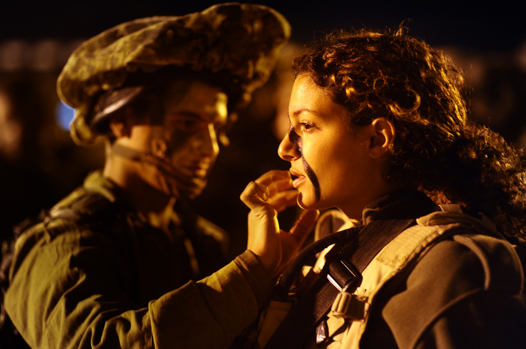 December 15, 2011 For the first time, female and male infantry soldiers from the Caracal Battalion participated in a joint drill. Read more about the first drill of the first coed combat Battalion. Photo by Sgt. Ori Shifrin, IDF Spokesperson's Unit The Israel Defense Forces Facebook page The Israel Defense Forces blog Follow us on Twitter